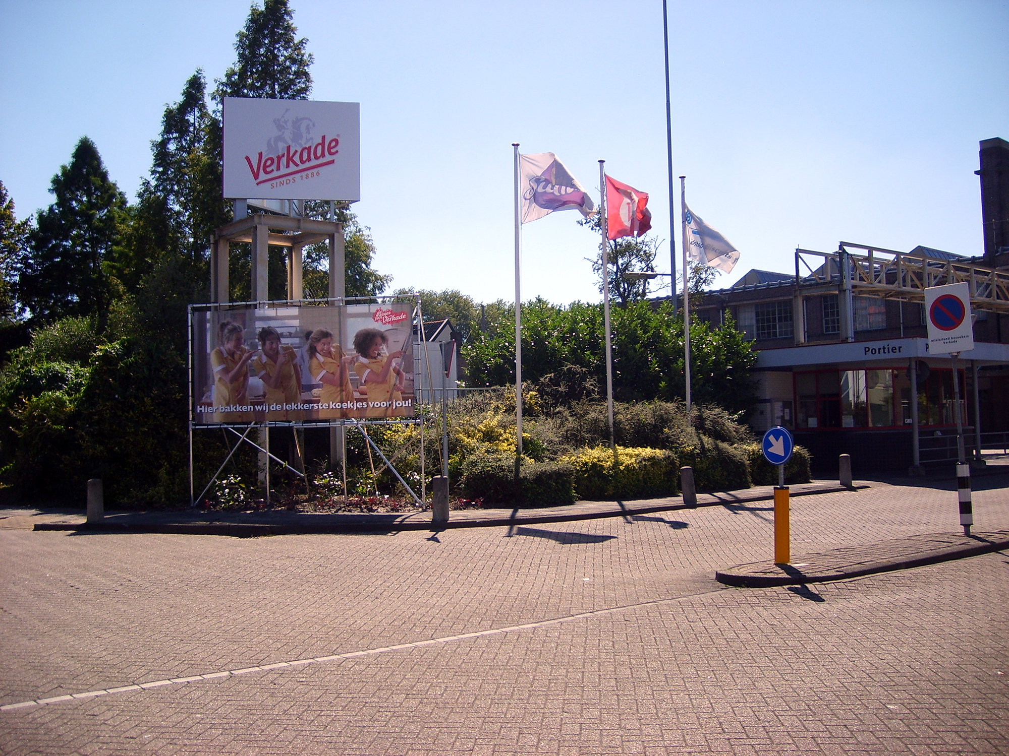 The entrance of the factory of Verkade in Zaandam. Note the billboard of 'De Meisjes van Verkade'(The Girls of Verkade)